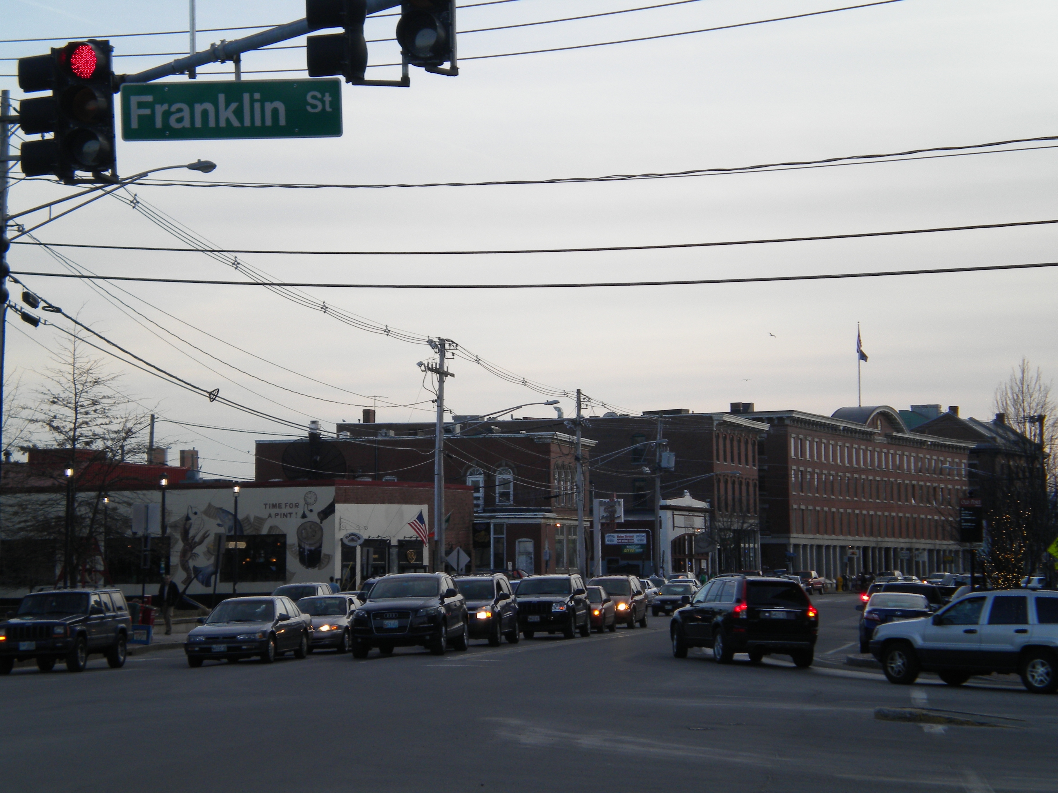 Franklin Street, at corner of Commercial Street - in Portland, Maine, USA.